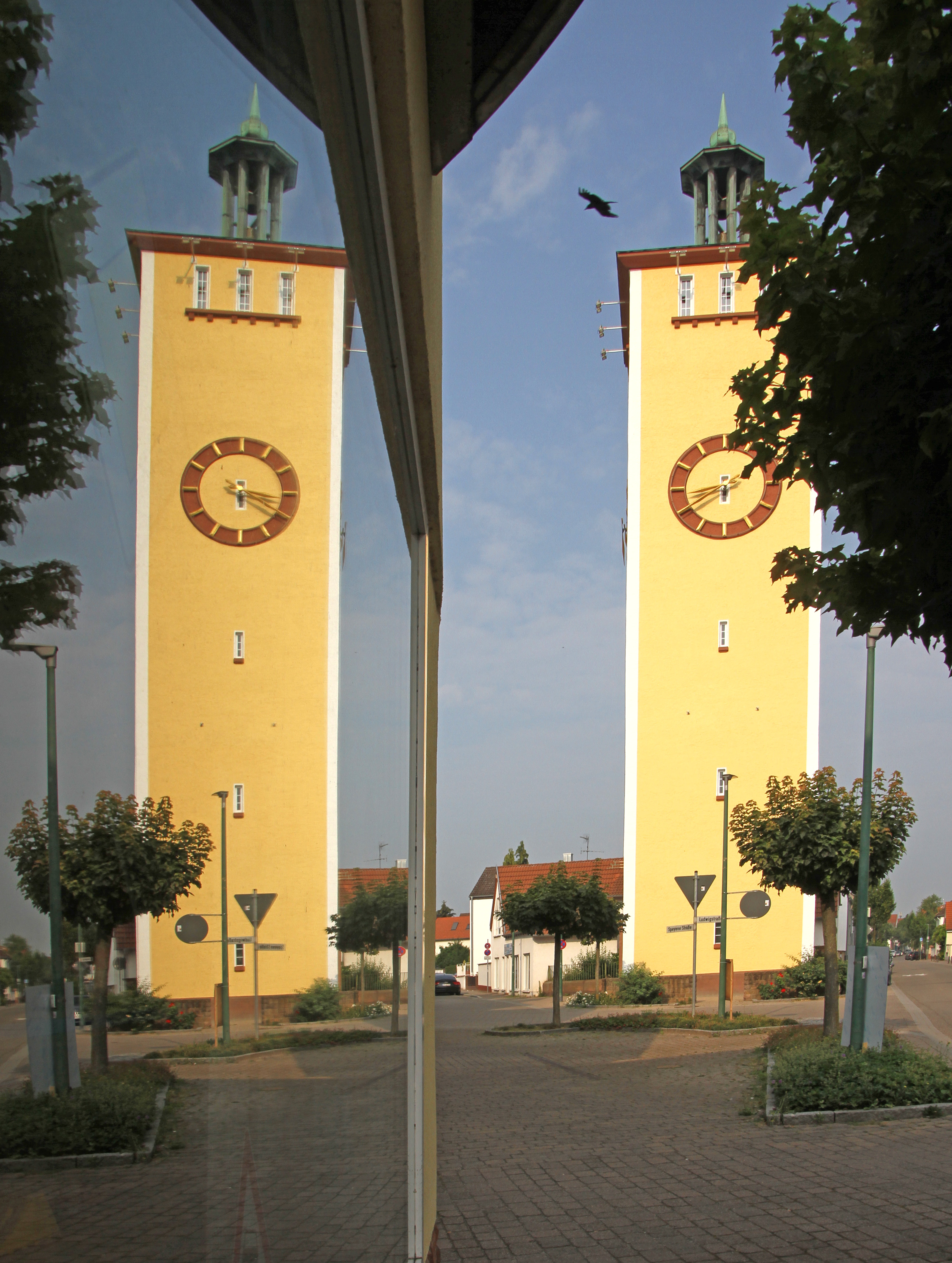 Water tower in Altrip